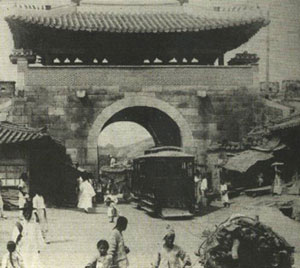 Seodaemun / Donuimun in the Joseon Period